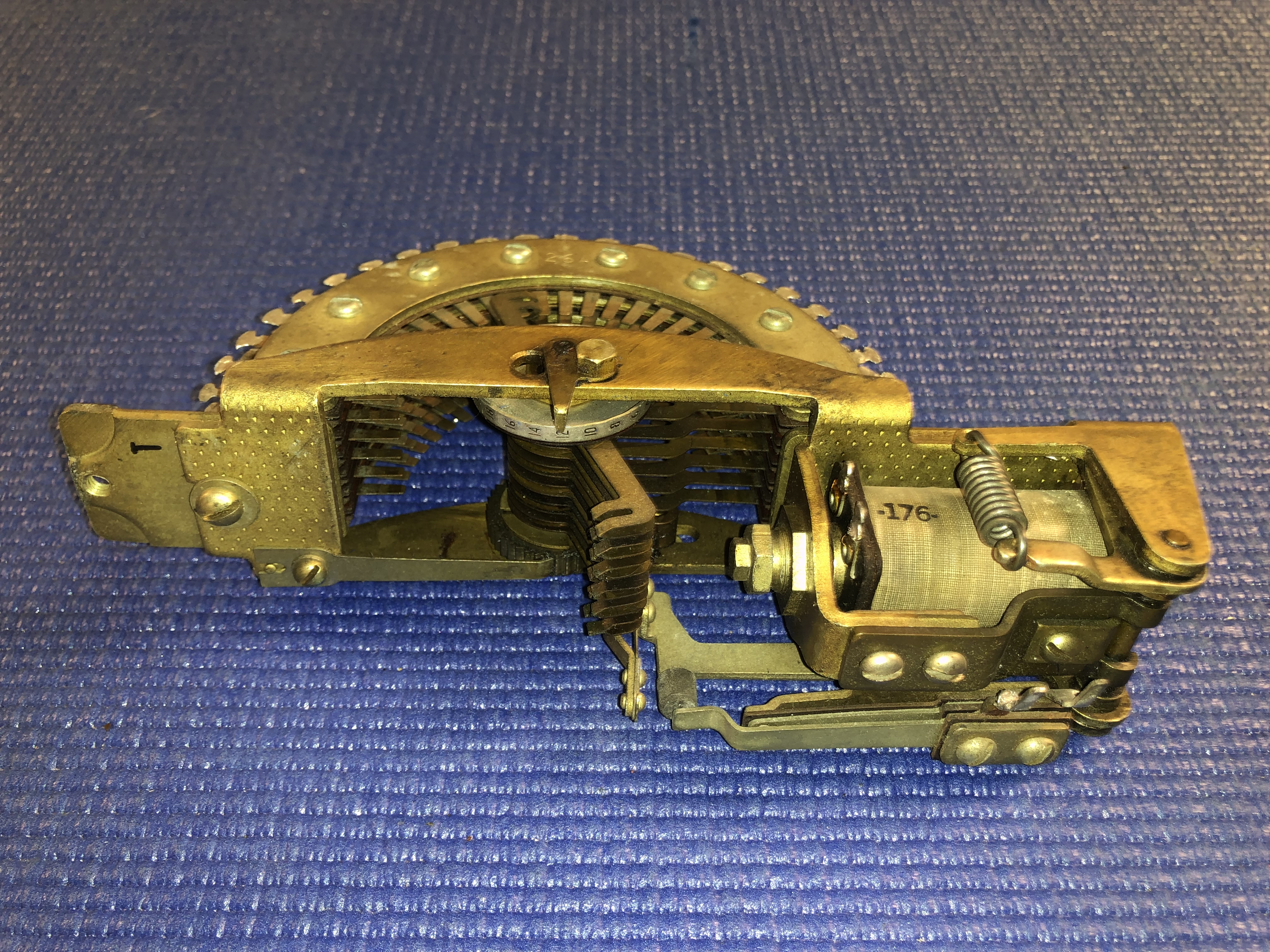 WE 206A stepping switch, a device used in telephone switching equipment, with 6 layers and 25 positions. On display at the Telephone Museum, Waltham, Massachusetts, USA